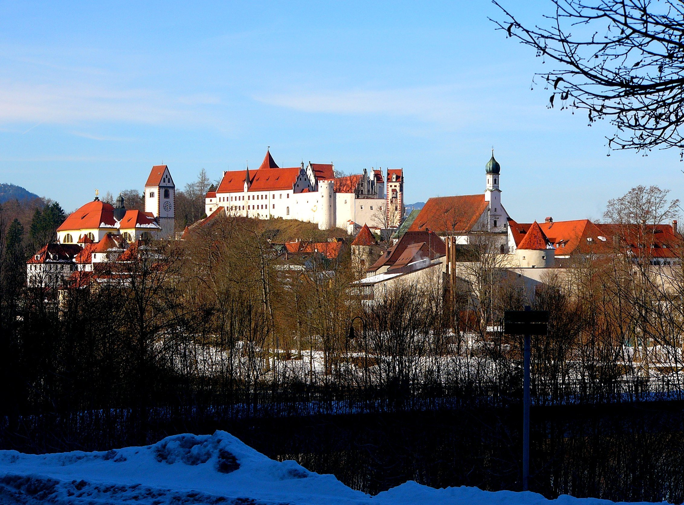 This is a photograph of an architectural monument.